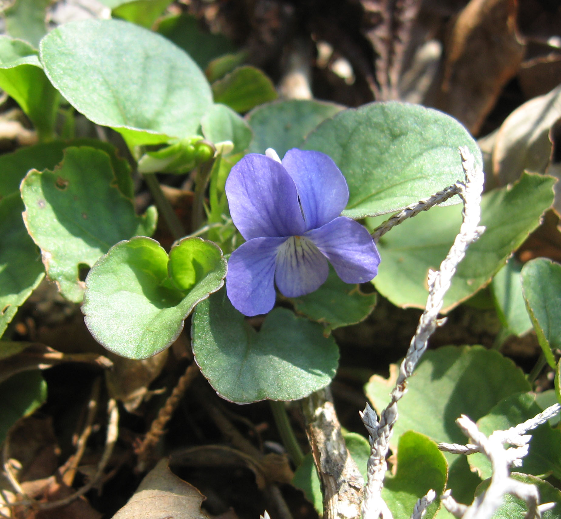 Viola walteri, Jessamine Creek Gorge, Jessamine County, Kentucky.